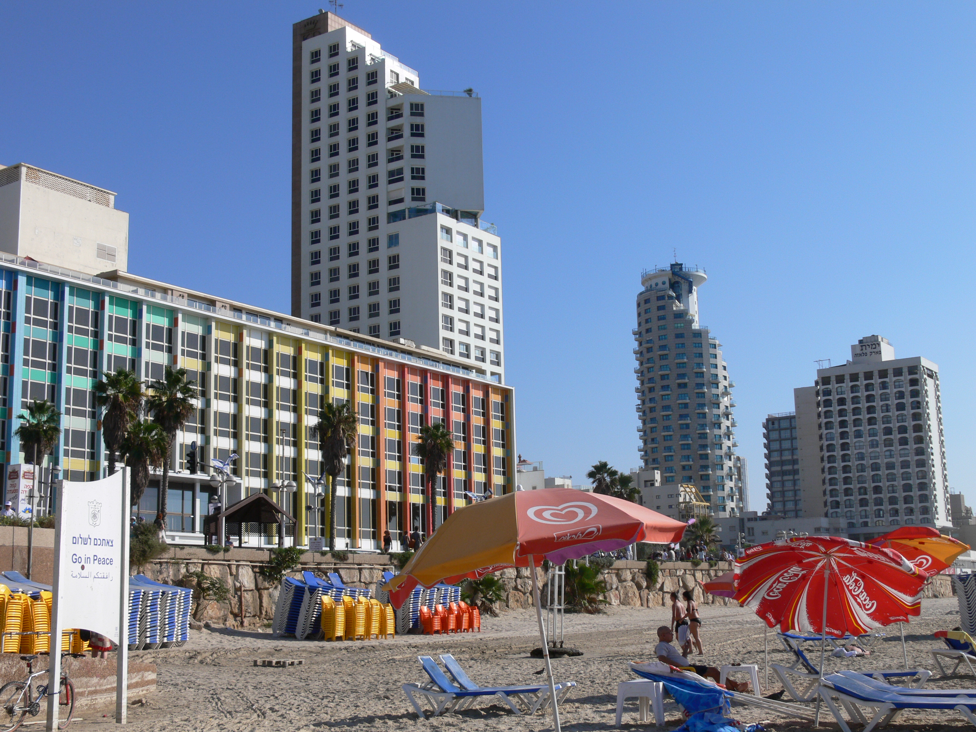 the Dan Hotek, ,Tel-aviv Beach.